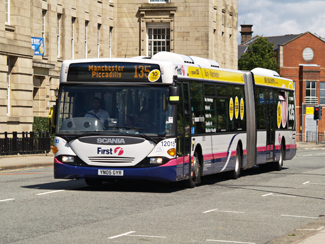 First Manchester Limited 12015 YN05 GYR, a Scania N94UA built 2005 with a Scania ‘OmniCity’ AB58D body on Knowsley Street, Bury on a Bury Interchange to Manchester Piccadilly Gardens via Whitefield, Heaton Park and Cheetham Hill 135 service. Sunday 29th July 2007